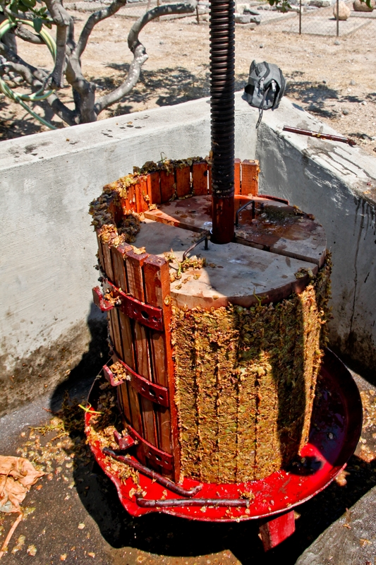 A great look at the pomace remnants of wine pressing, the cake which includes grape skins, seeds and sometimes stems left over after the juice has been extracted.